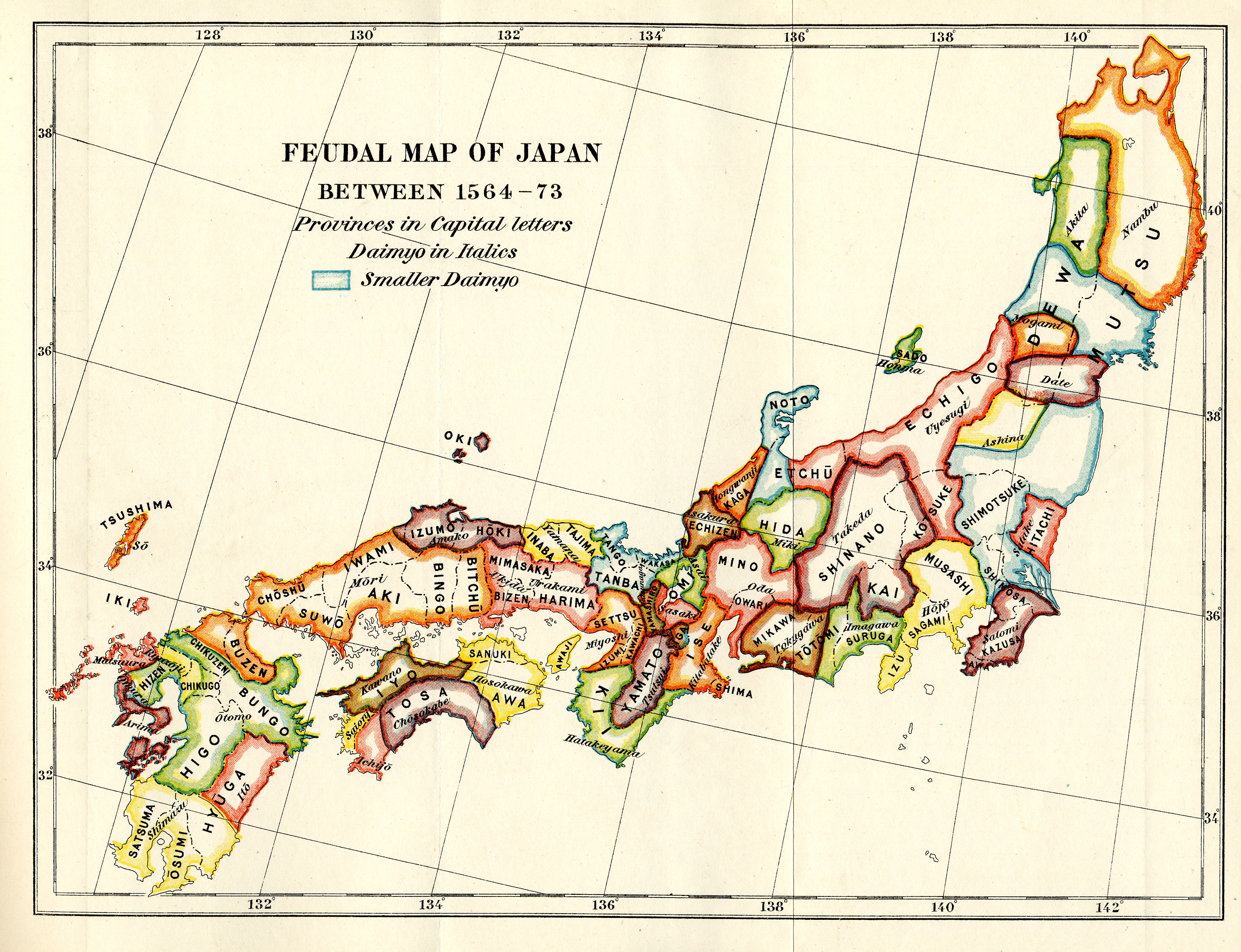 Scan of plate facing page 122 of "A History of Japan during the century of early foreign intercourse (1542-1651)", by Murdoch and Yamagata.